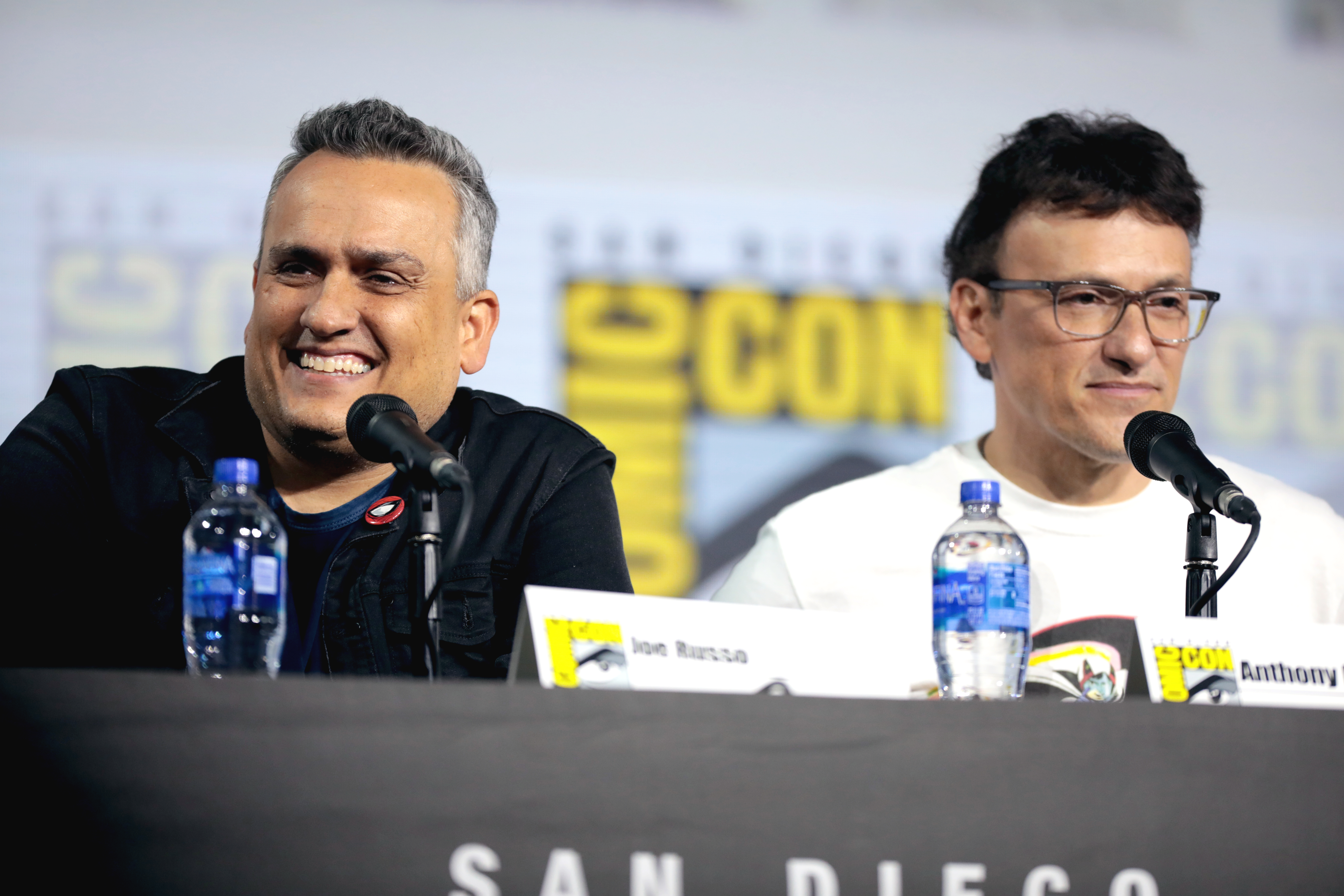 Joe Russo and Anthony Russo speaking at the 2019 San Diego Comic Con International, for "A Conversation with the Russo Brothers", at the San Diego Convention Center in San Diego, California.